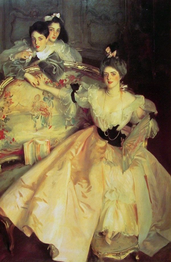 Mrs. Carl Meyer and her Children John Singer Sargent -- American painter 1896 Private collection Oil on canvas 209.9 x 135.9 cm (79 1/2 x 52 3/4 in.) Signed and dated 'John S Sargent 1896' Jpg: Art Renewal Center